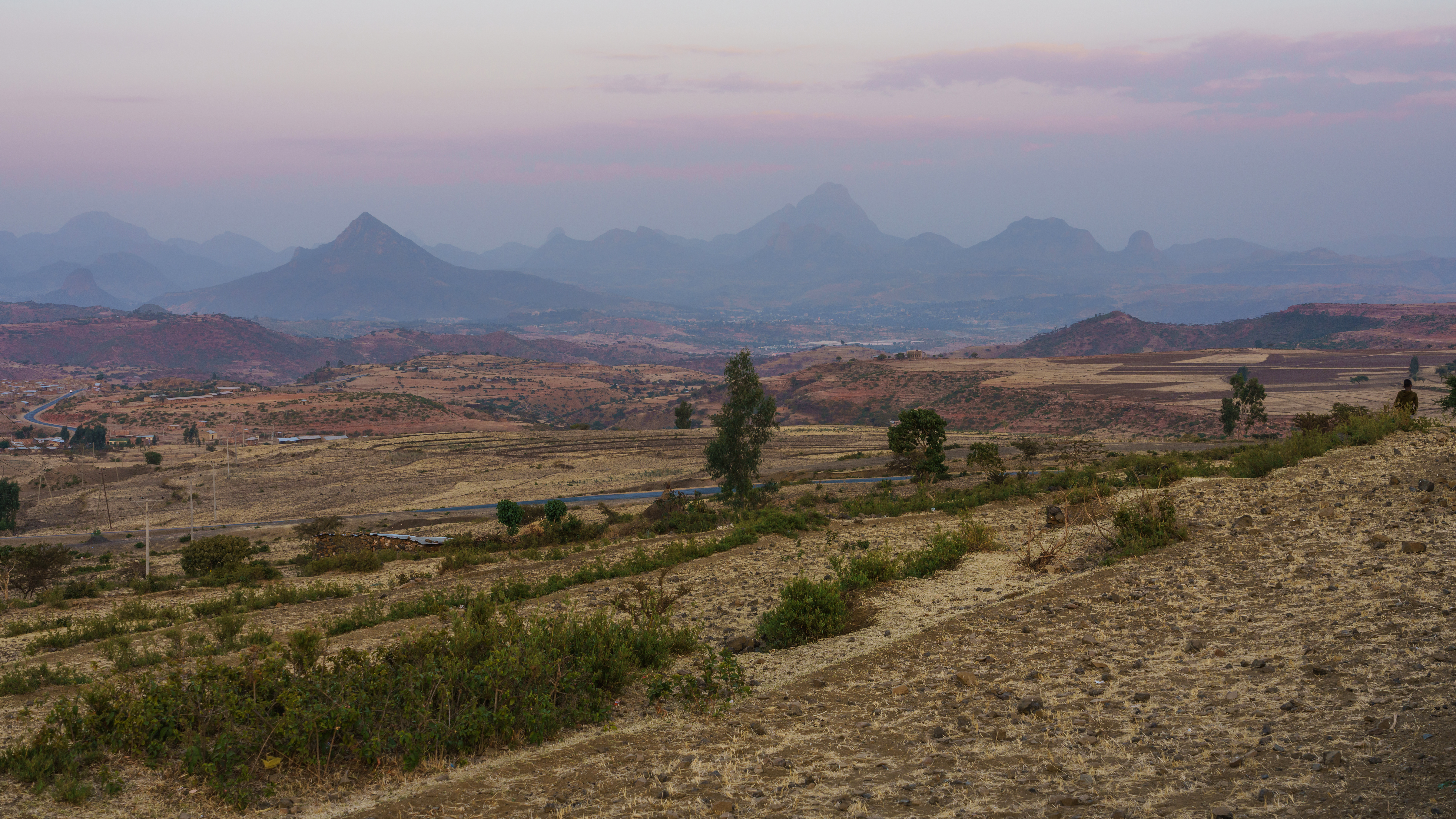 Site of the Battle of Adwa in Tigray Region, Ethiopia